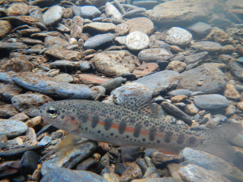 Rainbow trout juvenile in stream, photo by Mike Anderson